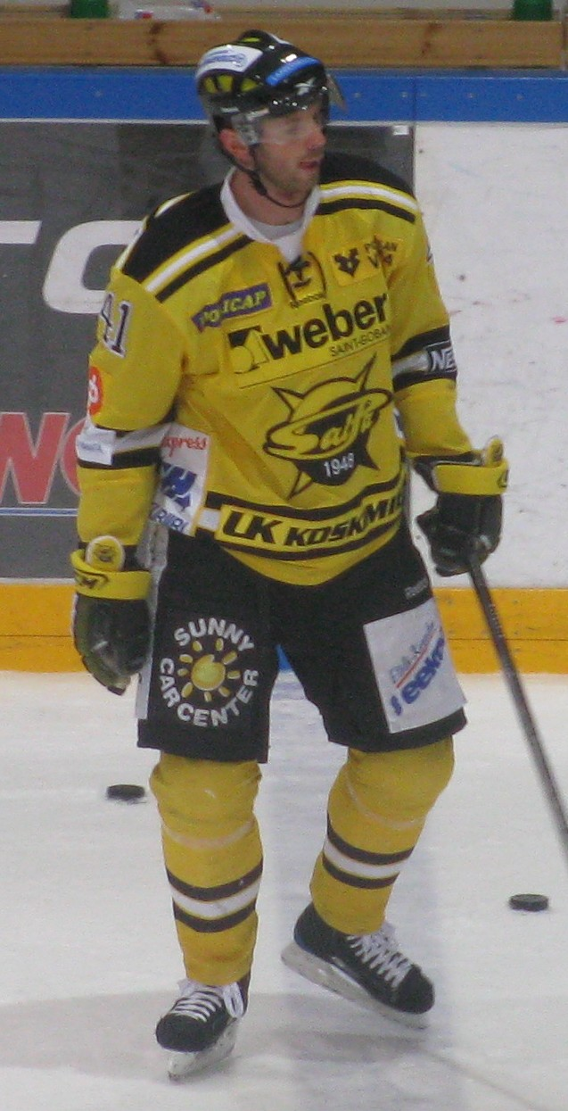 Richard Lintner playing in SaiPa.